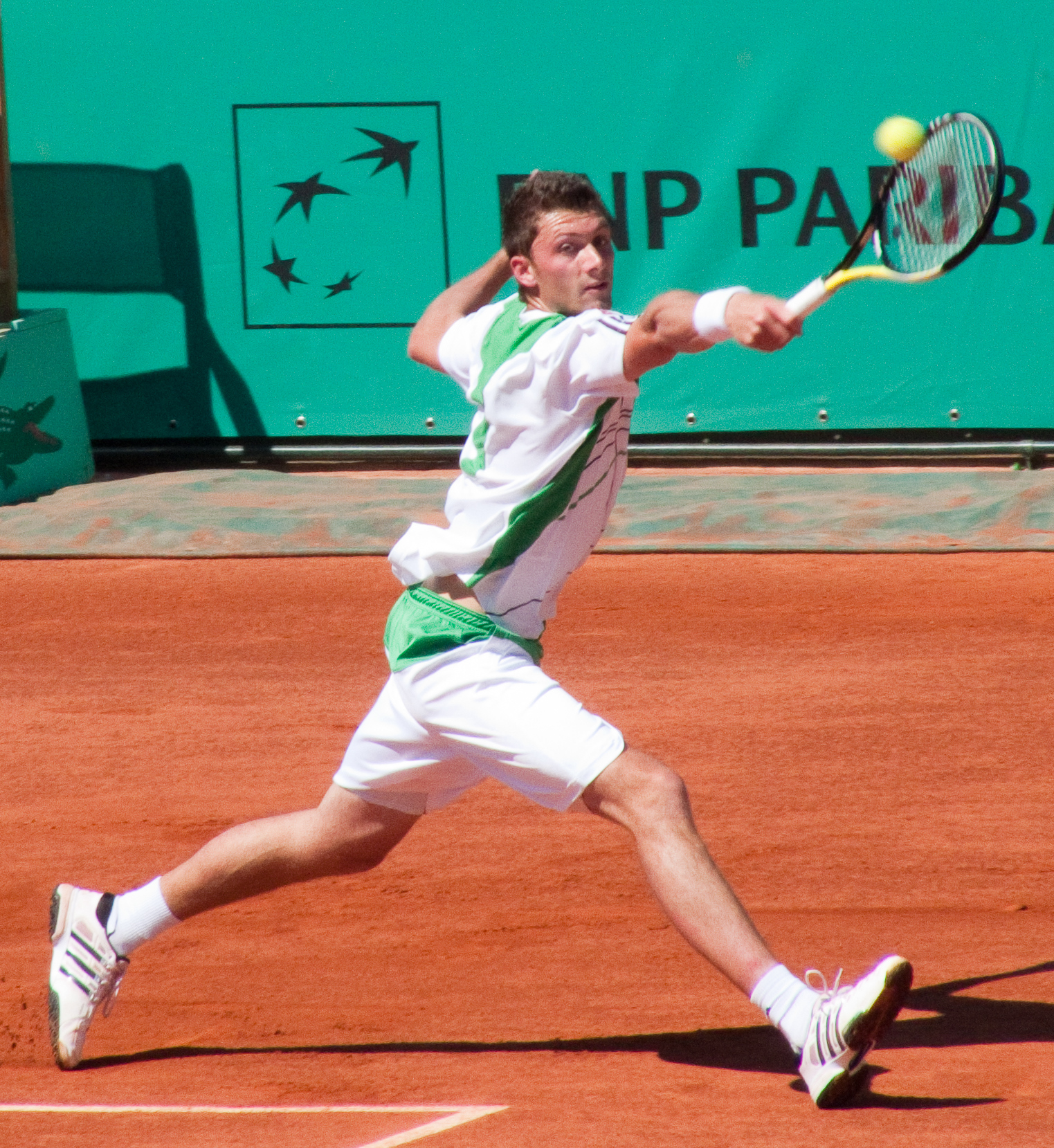 Daniel Brands at the French Open